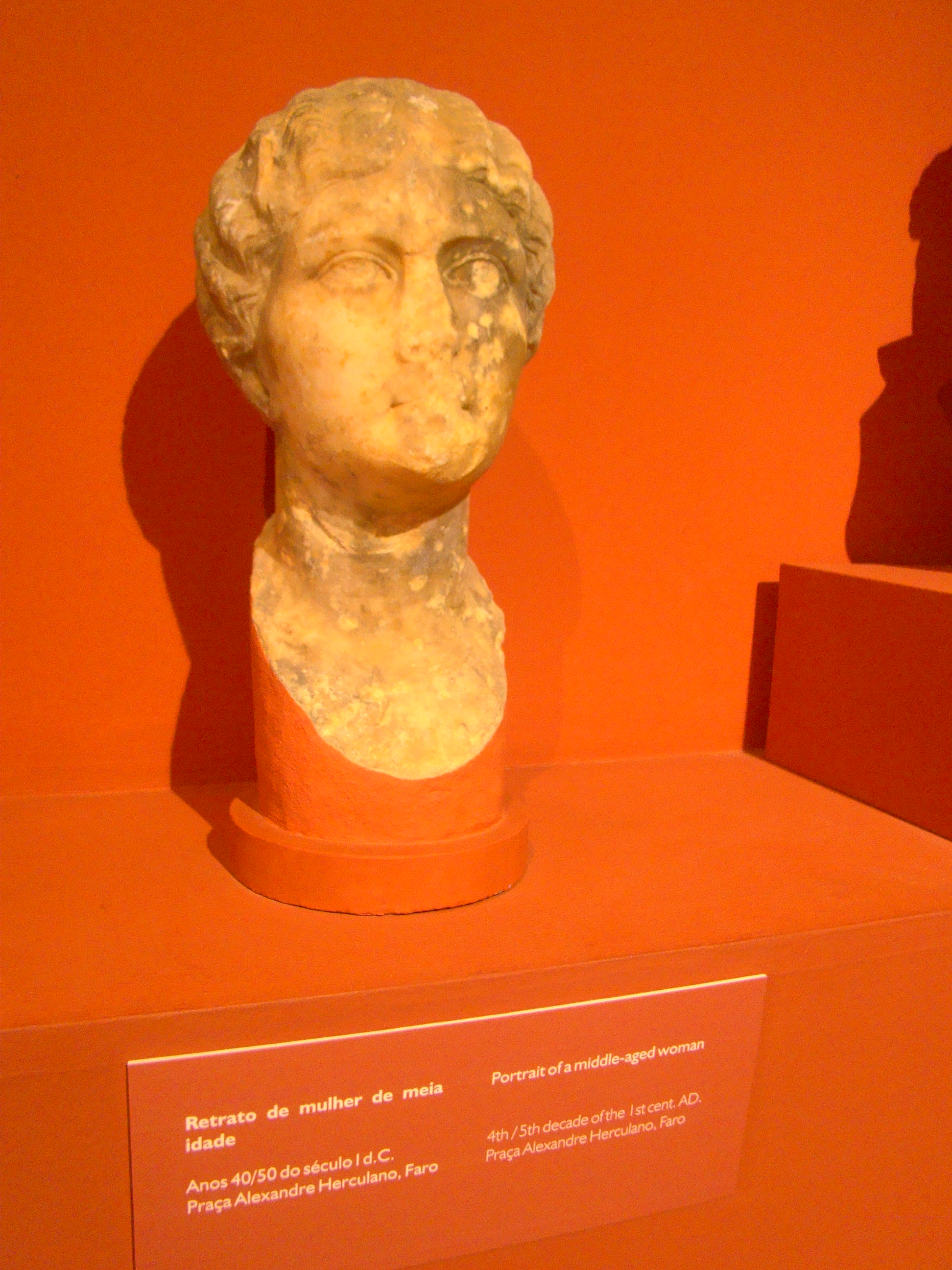 Roman bust found in Faro, Portugal